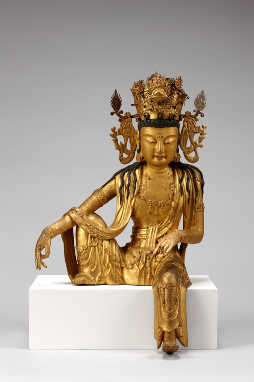 Gwaneum Sculpture, 13c, Goryeo, National Museum of Korea